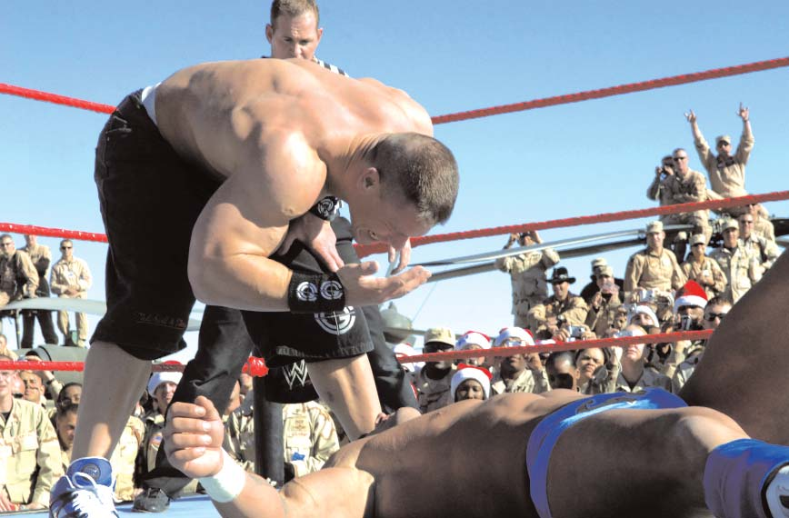 John Cena does his "you can't see me" taunt on Chris Masters during the 2005 WWE Tribute to the Troops show at Bagram Airfield, Afghanistan